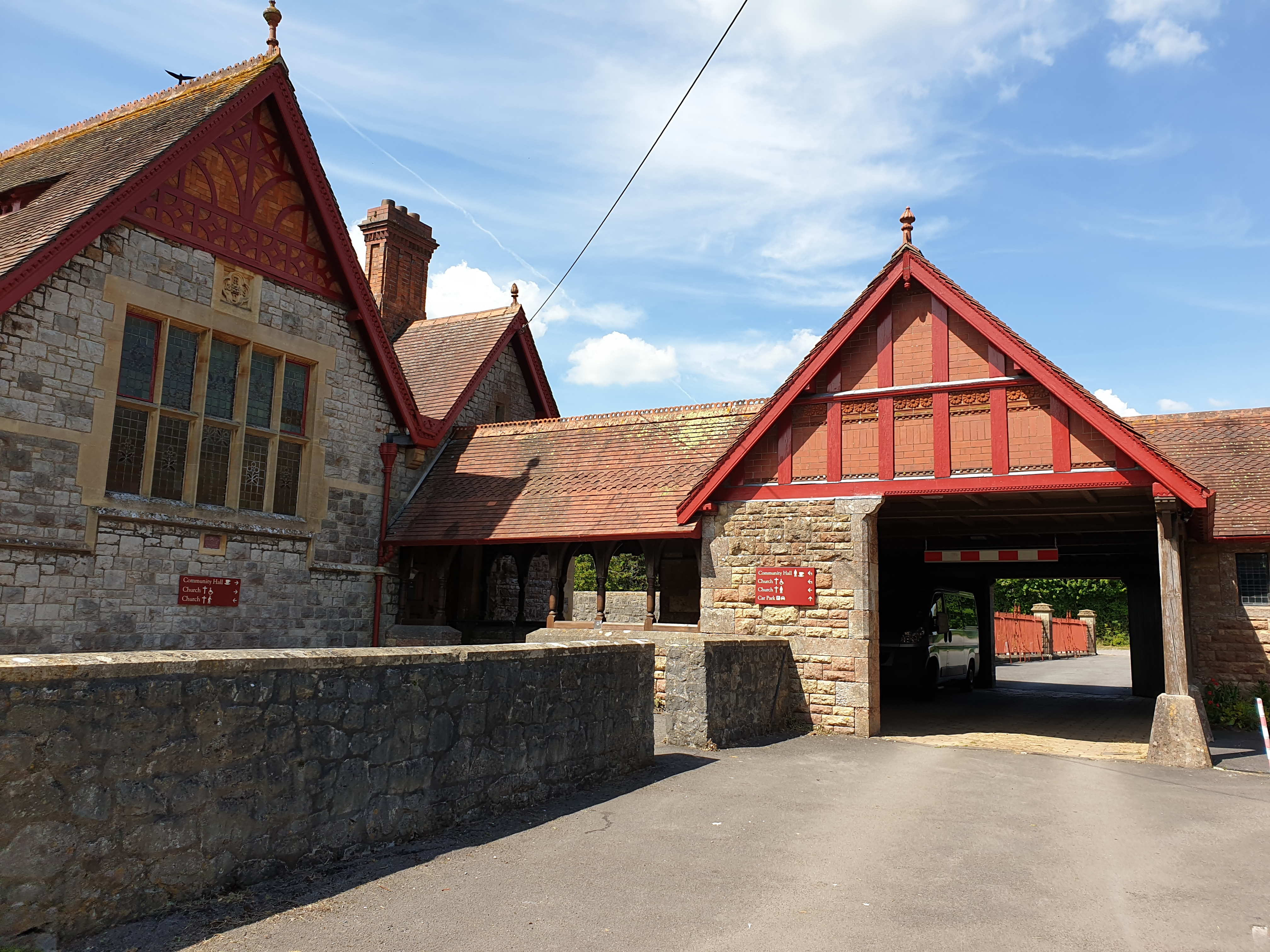 Gable end of schoolroom (dated 1879) and porte-cochère to car park